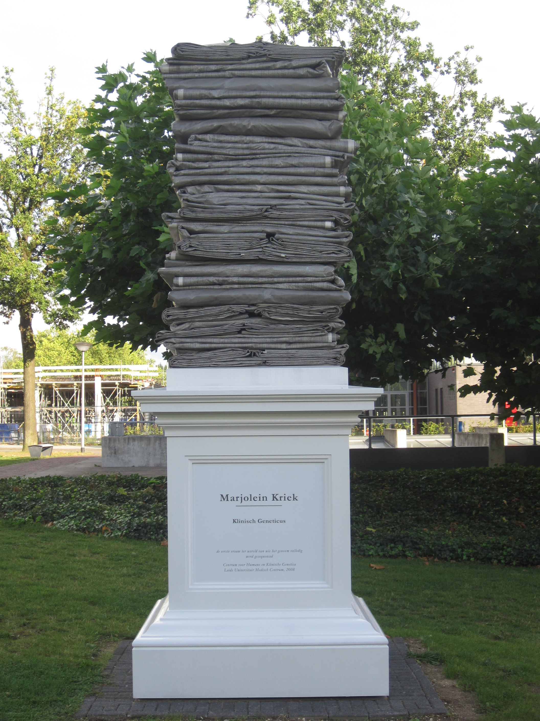 Statue for Marjolein Kriek (the first woman in the world who had her complete genome sequenced) by Bas van Vlijmen, Toernooiveld, Nijmegen, the Netherlands